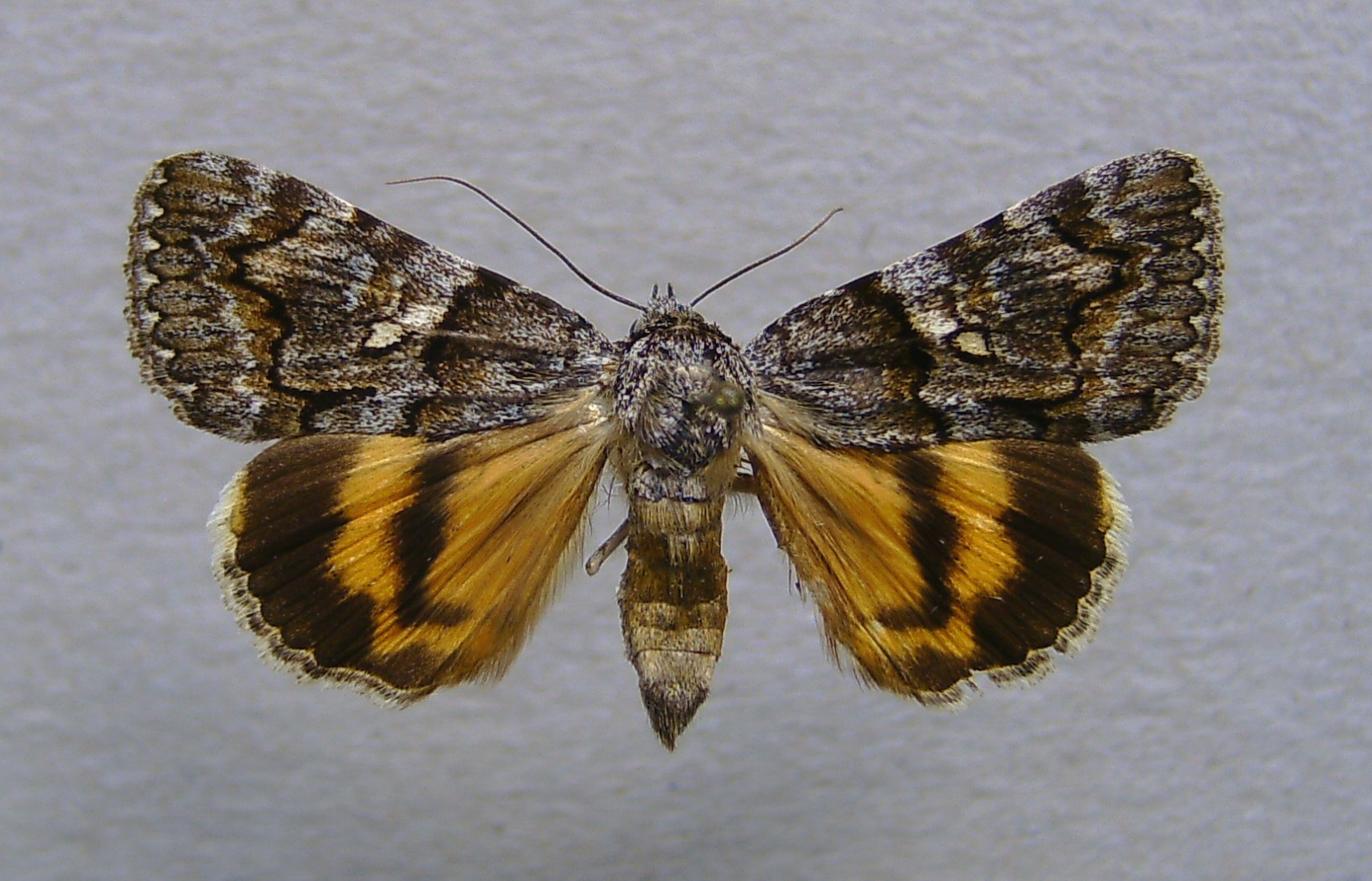 Catocala disjuncta, Kresna Municipality, Bulgaria